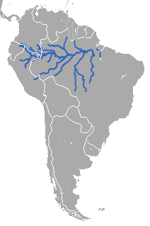 Amazonian Manatee (Trichechus inunguis) range